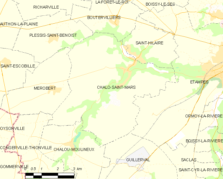 Map of French municipality Chalo-Saint-Mars